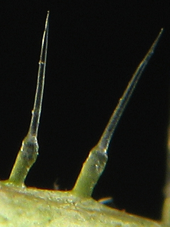 The stinging hairs of Urtica dioica. You can see the round tip (very small) at the very top of the hairs.